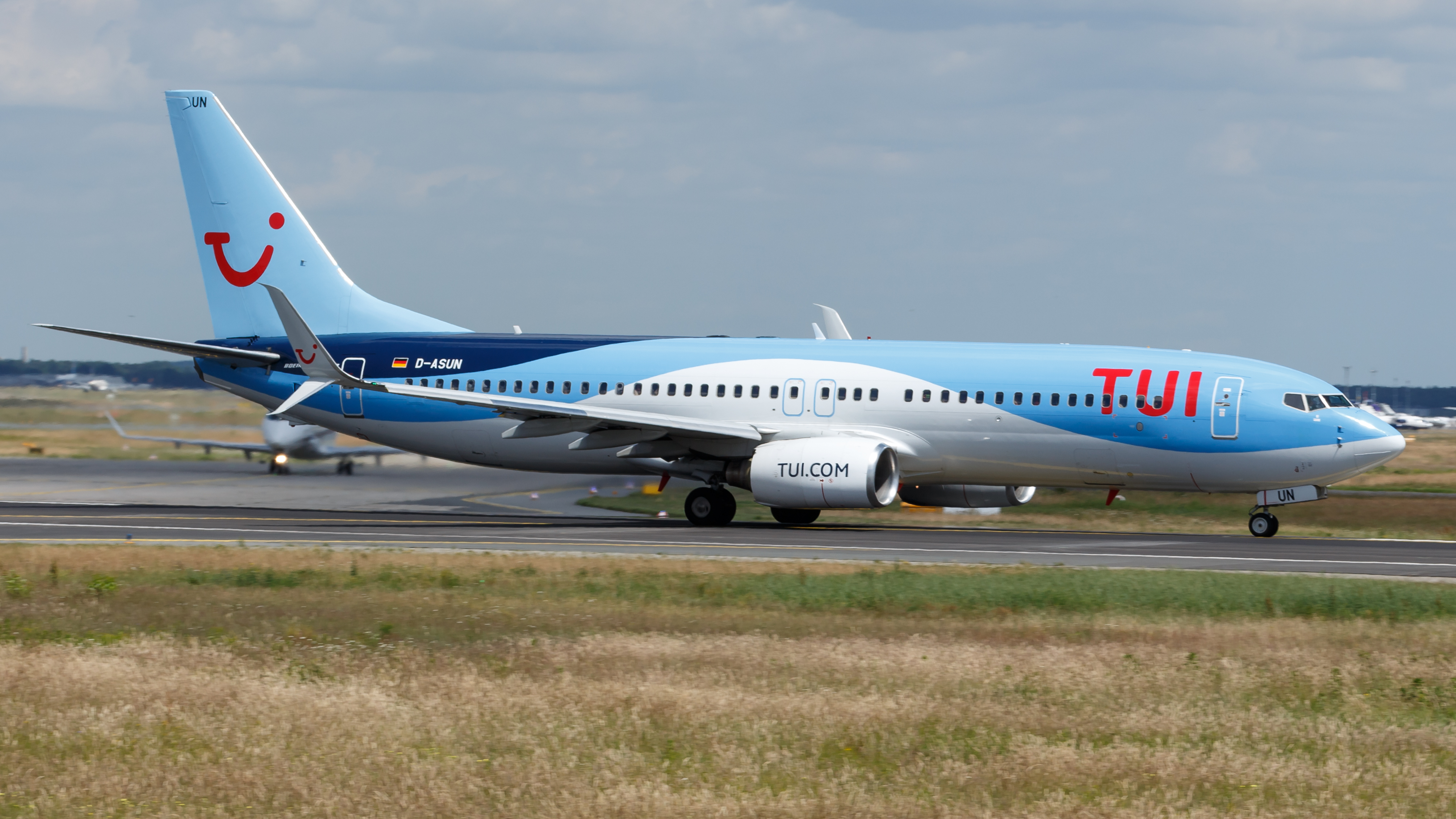 TUIfly Boeing 737-800 at Frankfurt Airport